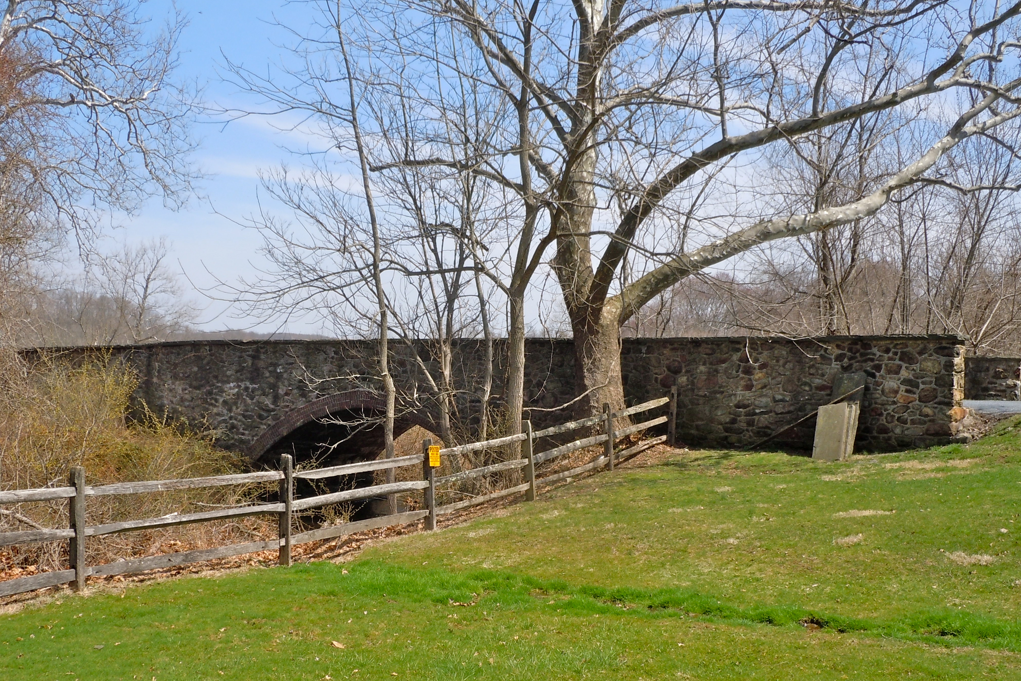 Brower's Bridge on the NRHP since June 22, 1988. Takes Mansion Road over French Creek in Warwick Township, Chester County, Pennsylvania. This is right next to (within a few feet!) the Reading Furnace Historic District, so it's a wonder it's not in that HD. Built 1904.